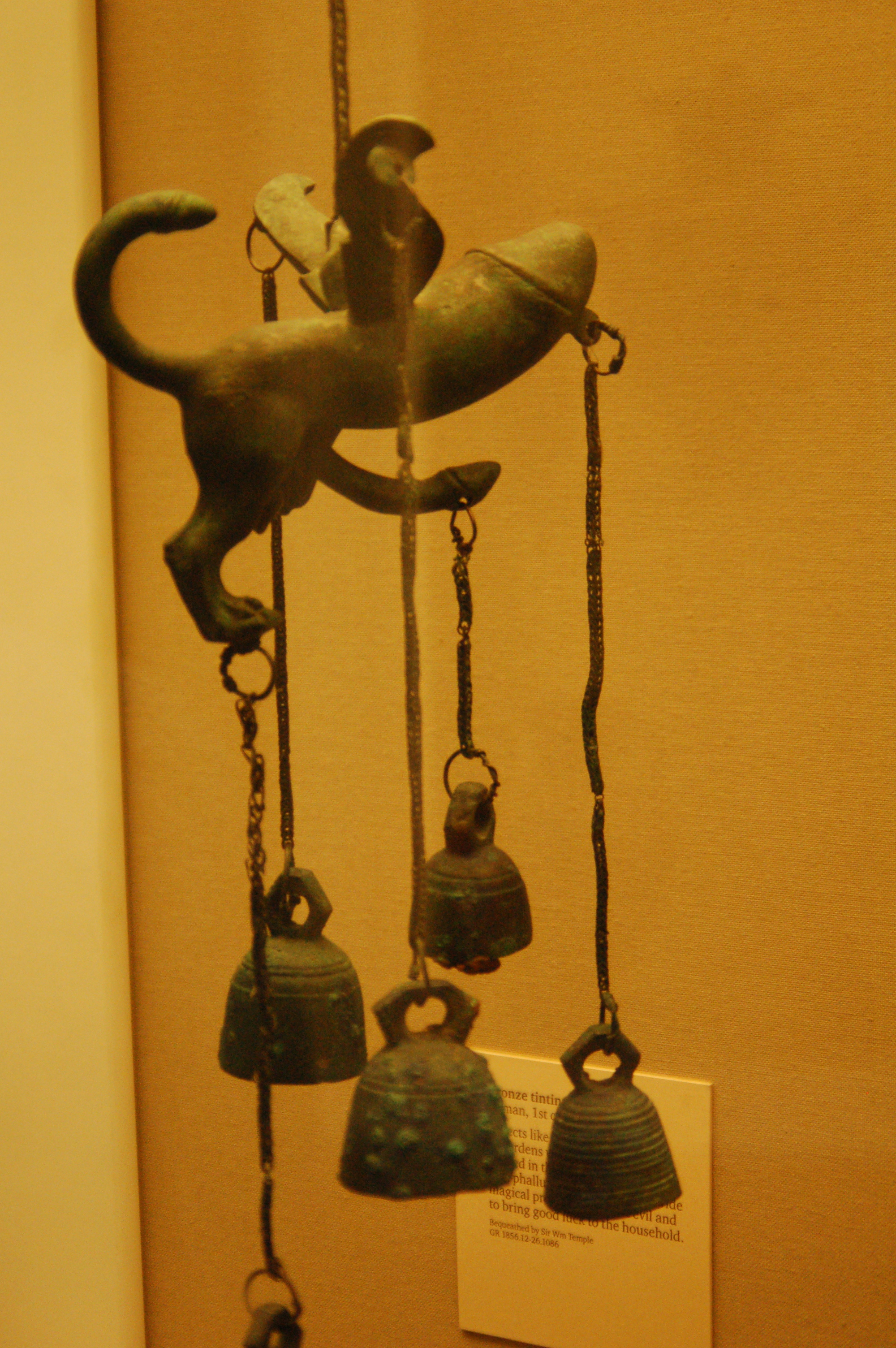 Bronze tintinabulum hung with small bells to function as a wind chime. It is decorated with a winged lion-phallus which was believed to provide magical protection against evil and to bring good luck to the household. Roman, 1st century. British Museum.